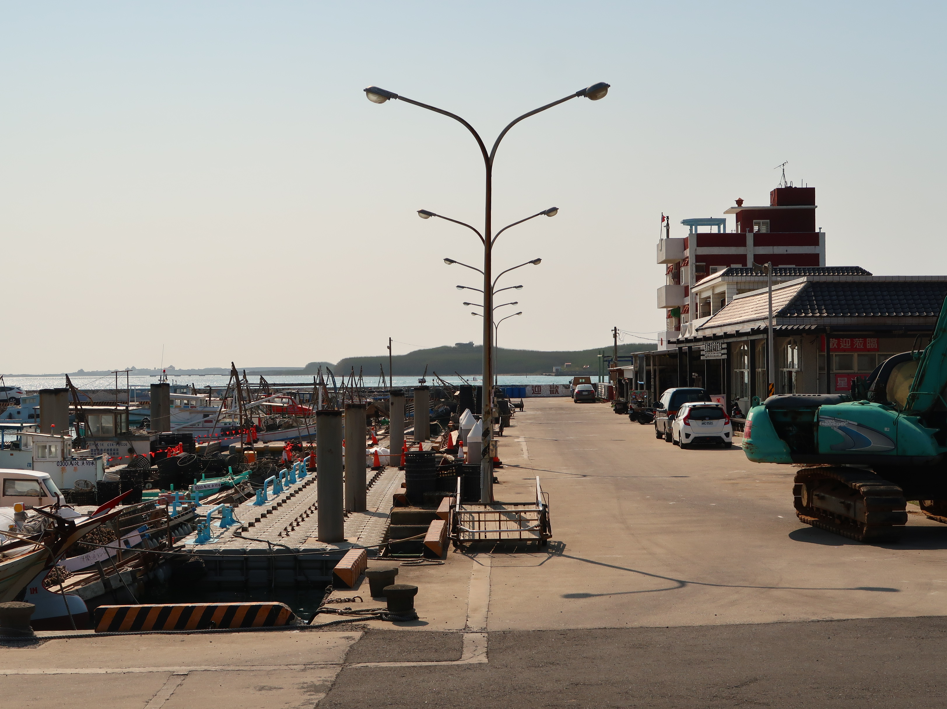 Tsaiyuan (Caiyuan) Fishing Harbor in Magong City, Penghu TAIWAN